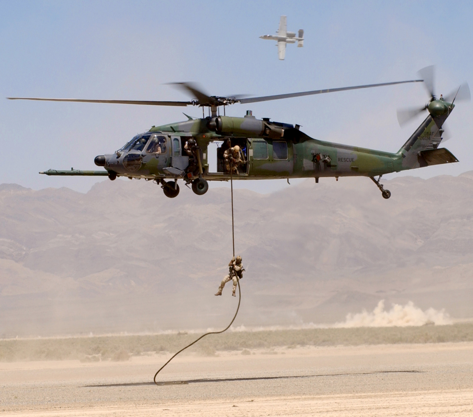 An HH-60G Pave Hawk retrieves a pararescueman as an A-10 Thunderbolt II provides cover fire during a firepower demonstration on the bombing range here May 12. The pararescueman is a member of the 58th Rescue Squadron. (U.S. Air Force photo by Senior Airman Kenny Kennemer)